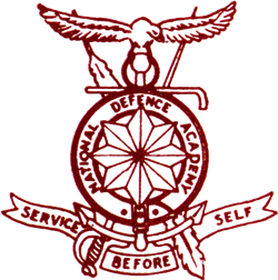 National Defence Academy Insignia